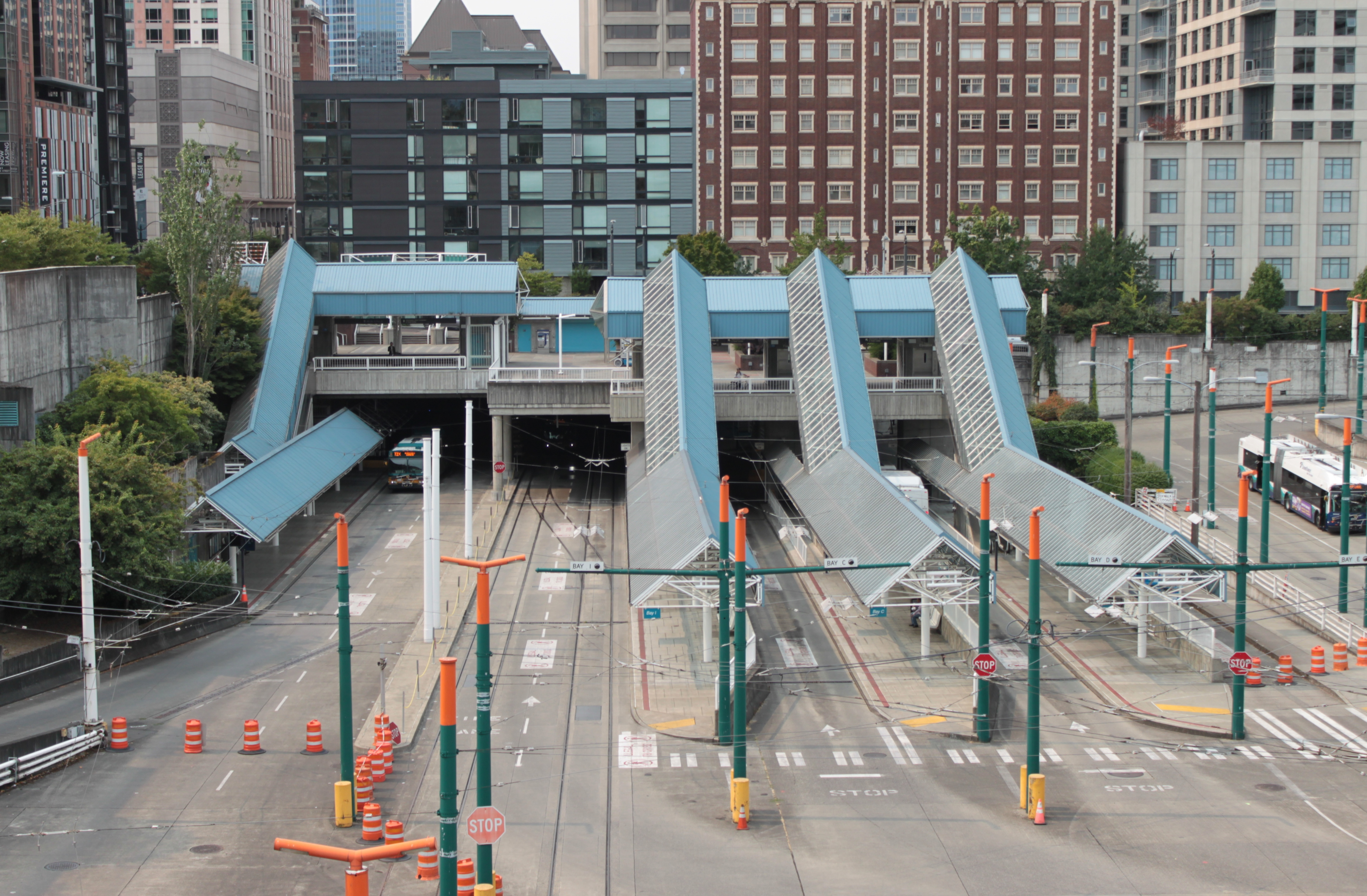 The platforms of Convention Place station, a bus terminal in Seattle, Washington, seen from Boren Avenue